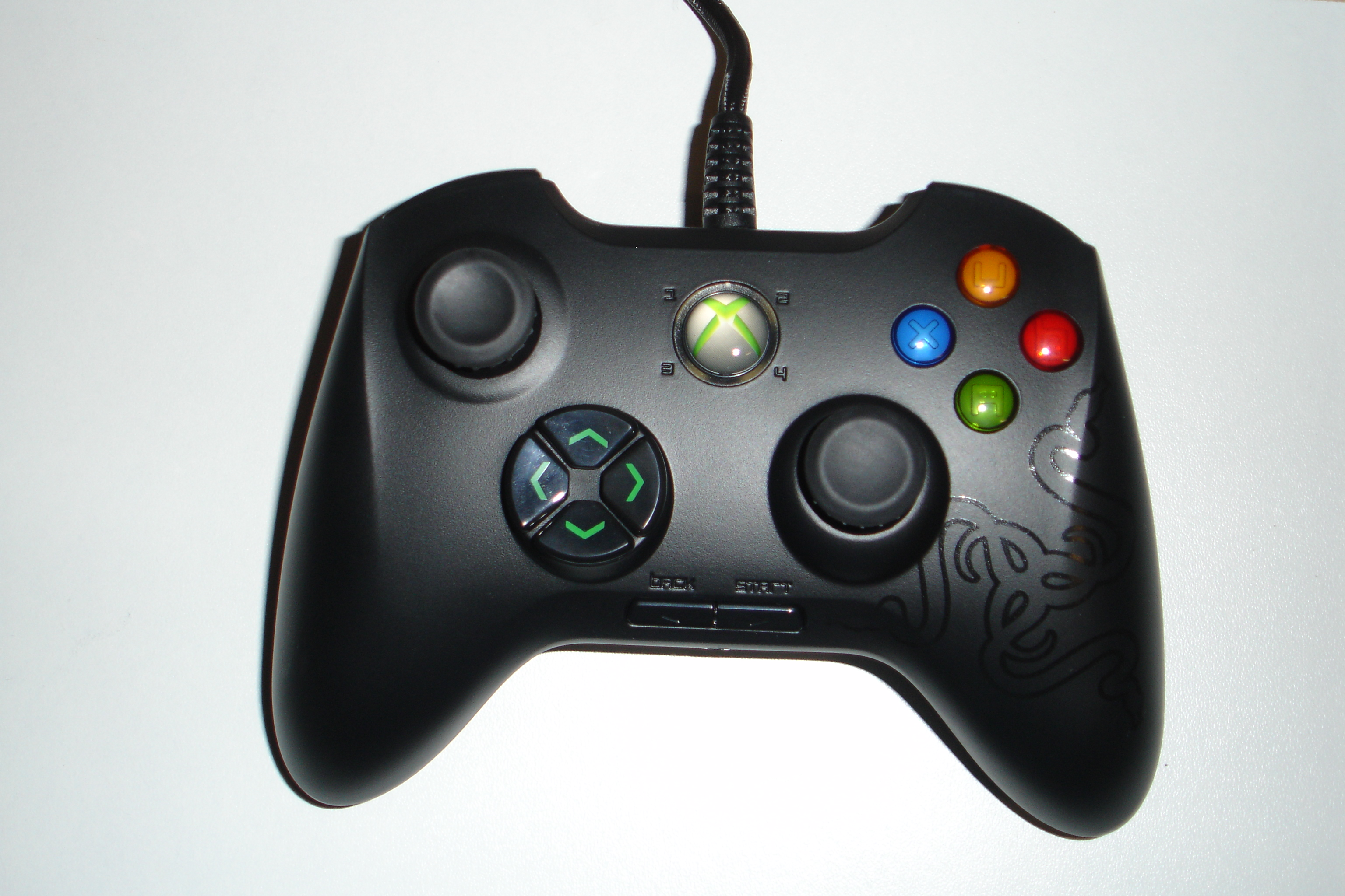 A third party controller developed by Razer for the Xbox360 game console.